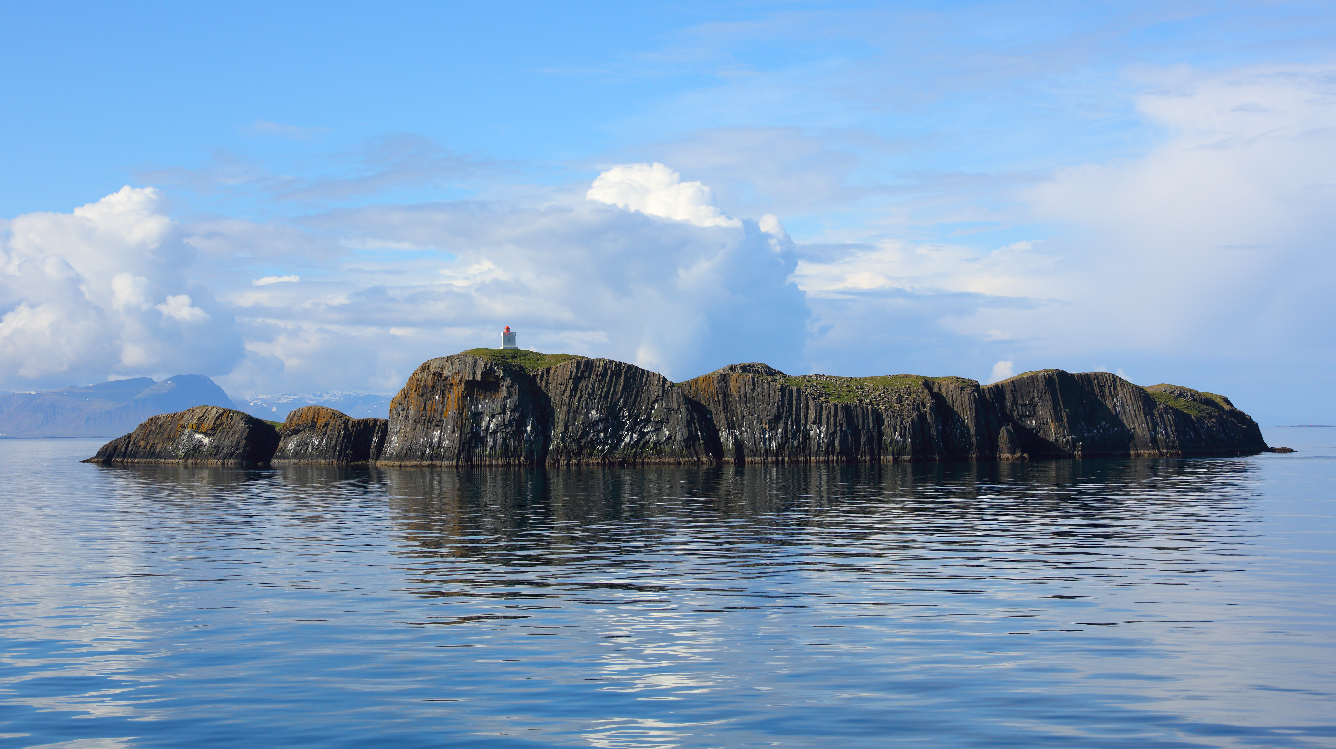 Island Elliðaey, Breiðafjörður with lighthouse, Iceland. Viewpoint from northeast.